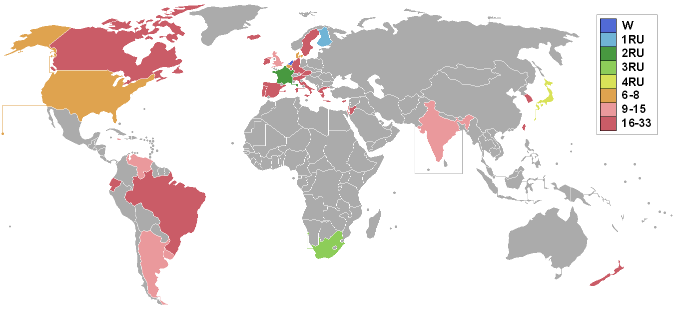 results map